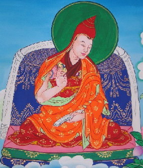 2nd Dzogchen Rinpoche Gyurme Thegchog Tenzin (1699–1758), Nyingma lama of Dzogchen Monastery, Tibet